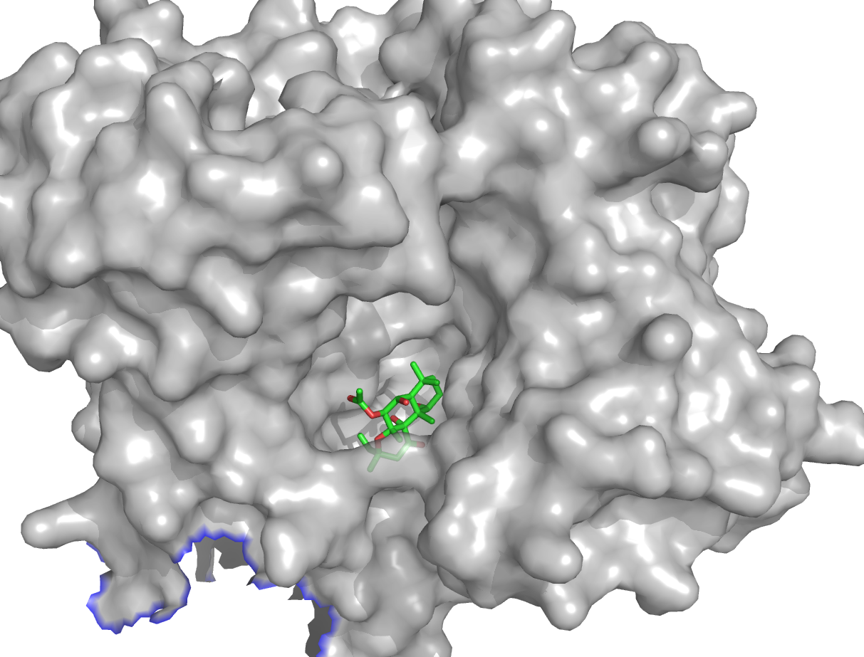 3D structure model of a mamalian adenylyl cyclase in complex with forskolin based on crystallogrophic data (PDB 3C16). See also Mou TC, Masada N, Cooper DM, Sprang SR (April 2009). "Structural basis for inhibition of mammalian adenylyl cyclase by calcium". Biochemistry 48 (15): 3387–97. PMID 19243146. PMC: 2680196.